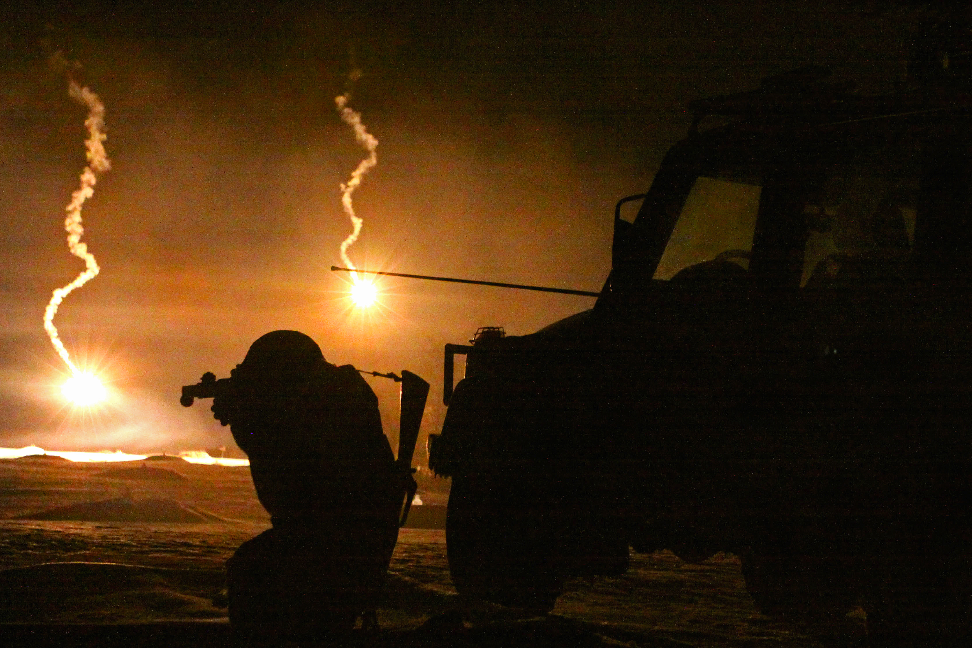 U.S. Army Pfc. Ali Hargis, 55th Signal Company (Combat Camera), photographs a nighttime live fire training exercise with the 37 Canadian Brigade Group at Fort Pickett, Va., March 3, 2009. The training exercise is part of Exercise Maritime Raider 09, a joint exercise preparing soldiers for deployment. (U.S. Army photo by Spc. Matthew Freire/Released)